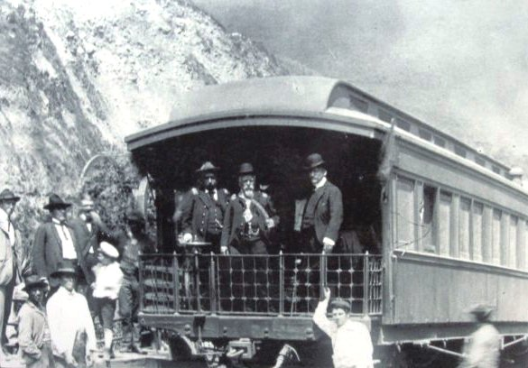 General Eloy Alfaro in the train of Ecuador in 1908.